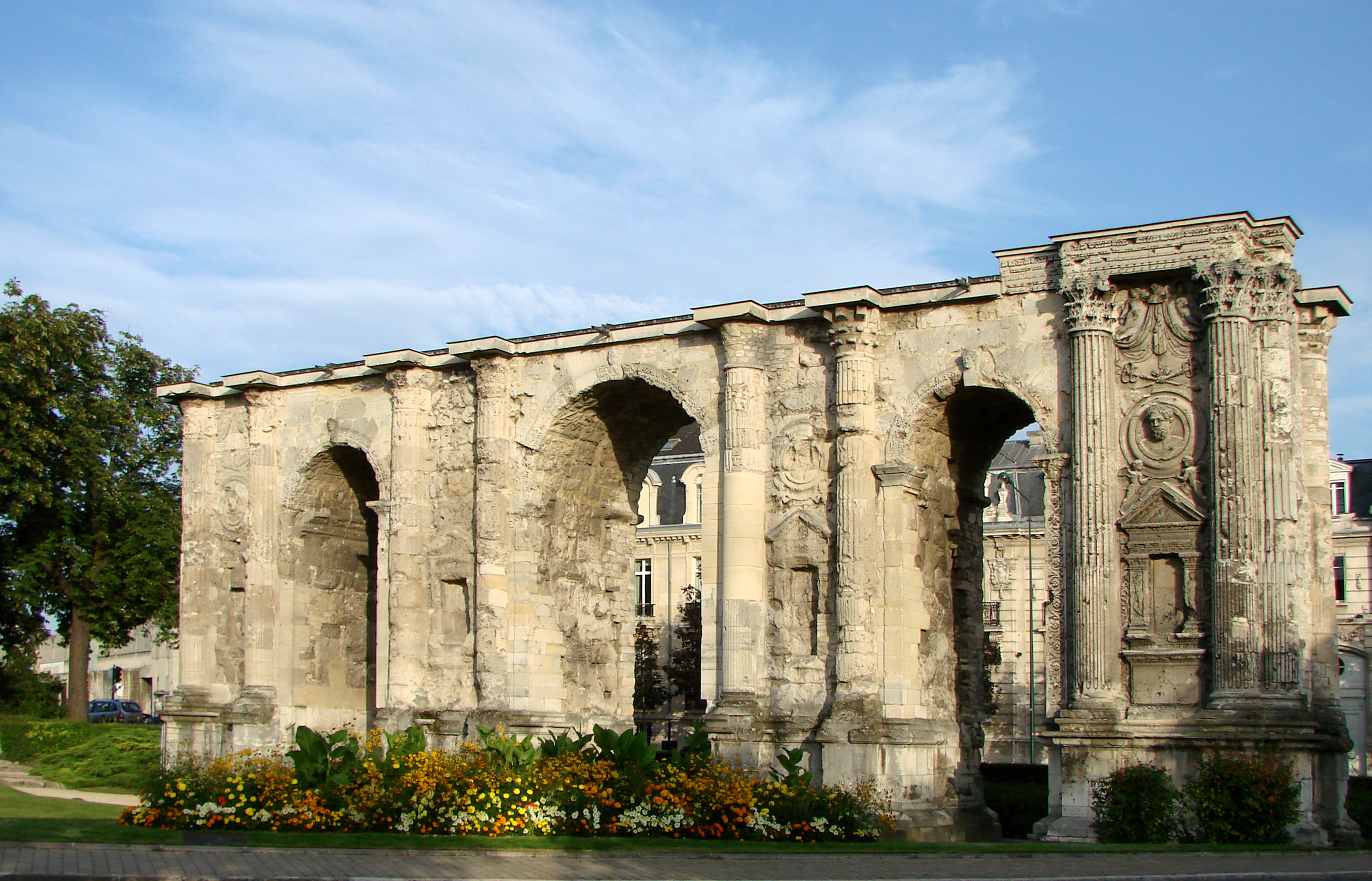 La Porte Mars (the Mars Gate), triumphal arch of the Gallo-Roman town (Durocortorum); 3rd century; Reims, France.